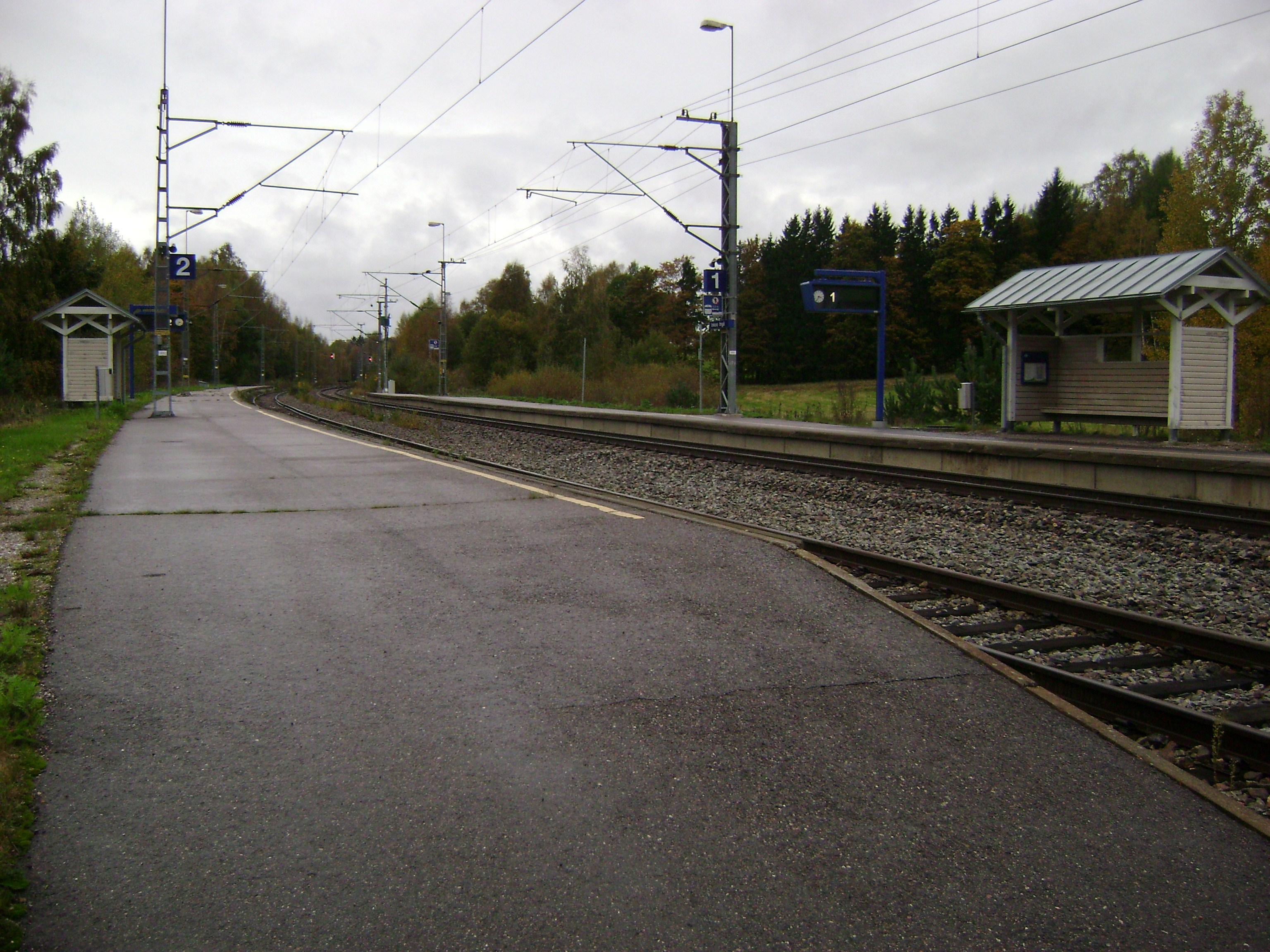 Platforms in Ingå railway station in Ingå, Finland, look to west.